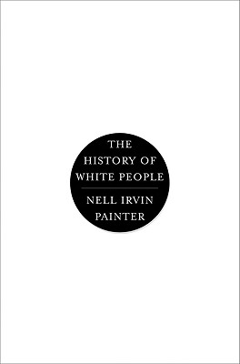 bookcover for The History of White People